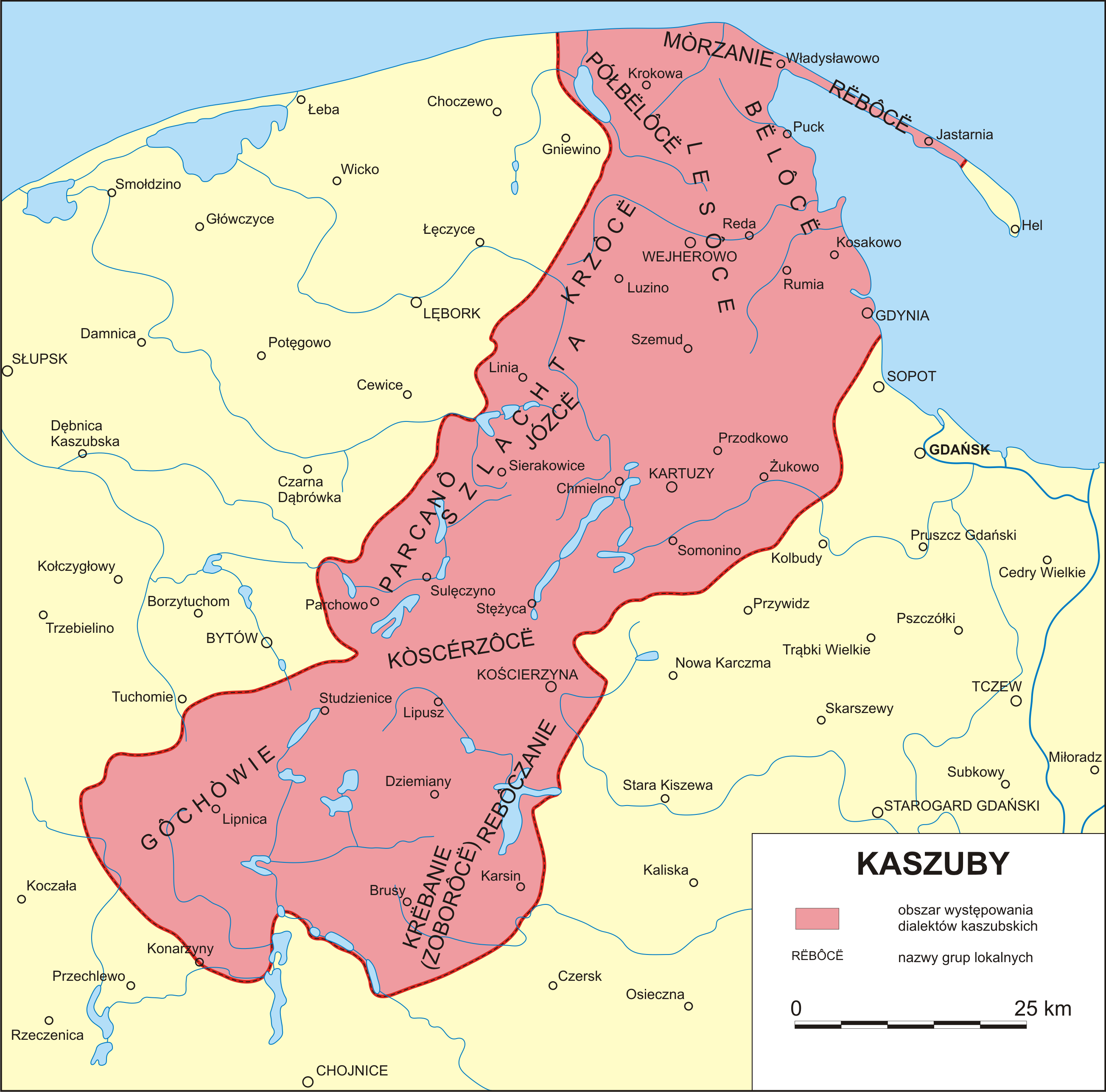 Local ethnonym groups on the Kashubian dialects area by Bernard Sychta